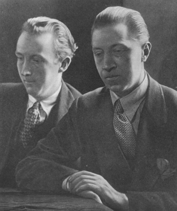 Sacheverell Sitwell with his brother Osbert Sitwell